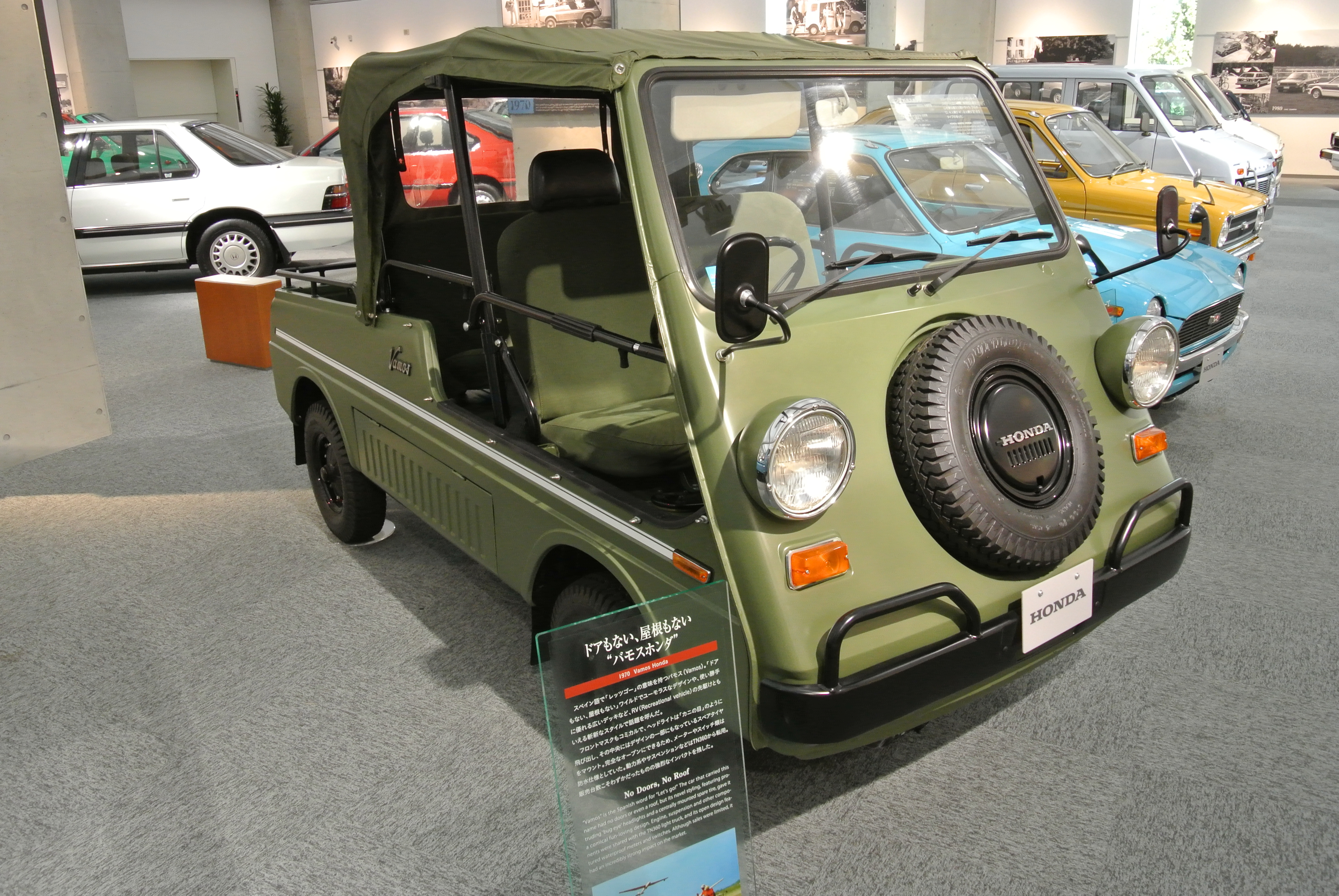 VAMOS Honda in the Honda Collection Hall.